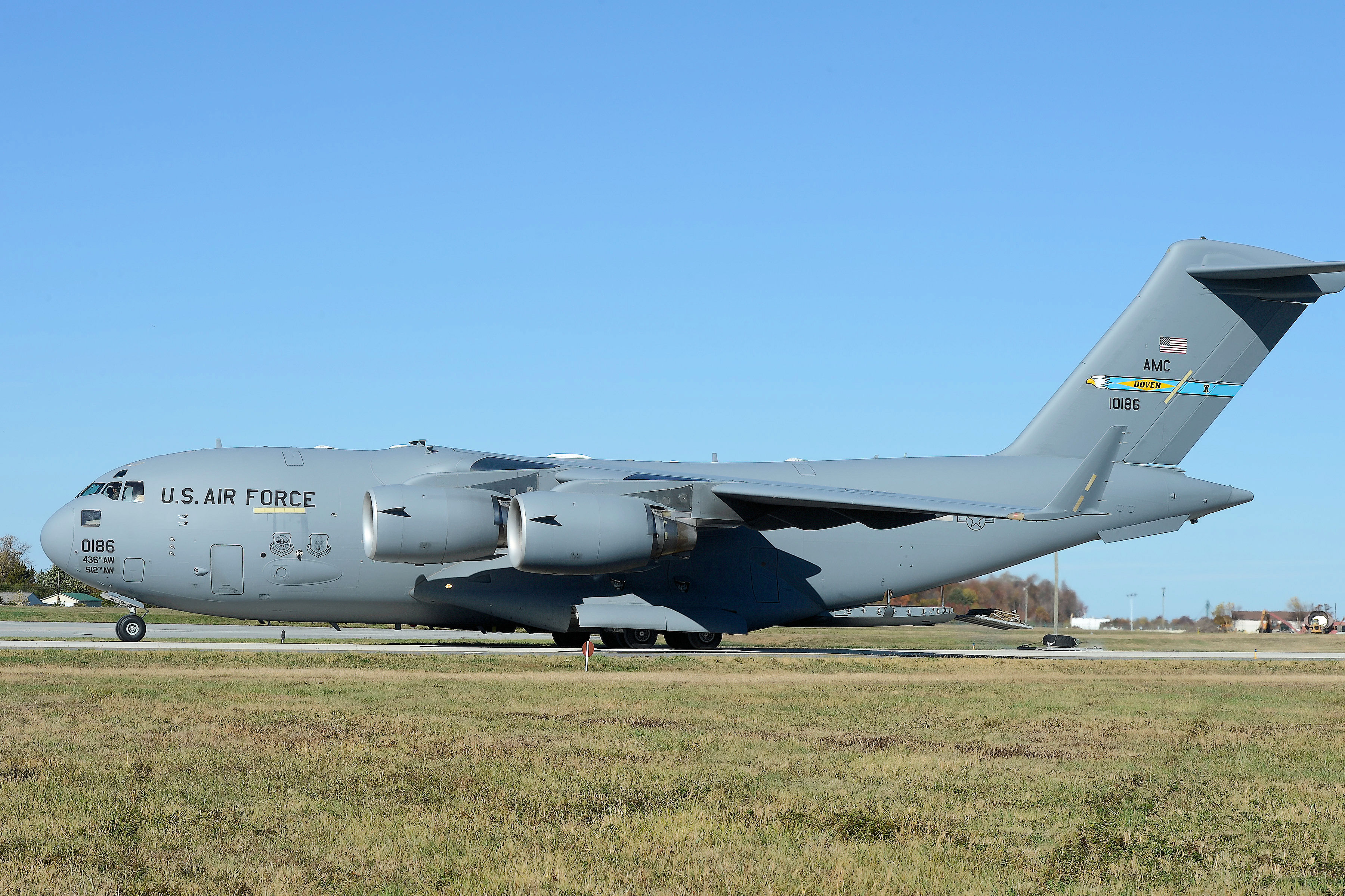 Cargo pallets fly off the back ramp of a C-17A Globemaster III of the 3rd Airlift Squadron, 436th Airlift Wing, during a combat off-load training event on Nov. 6, 2013, Dover Air Force Base, Del. This method of off-loading cargo pallets is practiced by C-17A aircrews so during real-world events the aircraft doesn't sit in one place too long. (U.S. Air Force photo/Greg L. Davis)